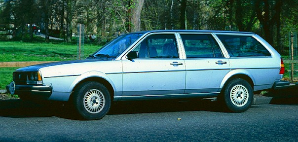 VW Quantum Wagon B2 on German export plates; at Queens Road, Cambridge.